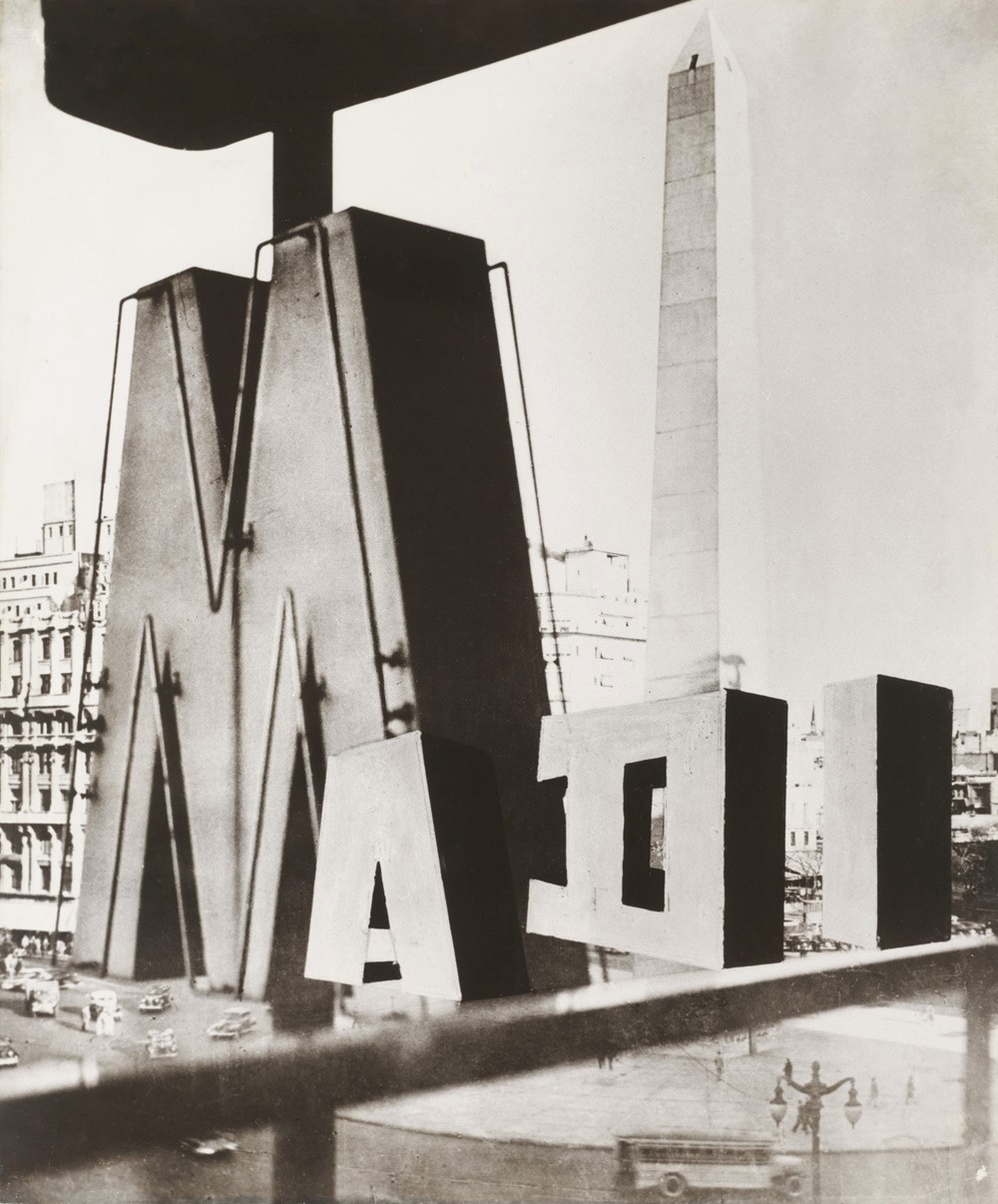 Photomontage for Madí, Ramos Mejía, Argentina, 1946-47. Gelatin silver print, 23 9/16 x 19 7/16″ (59.8 x 49.4 cm) In 1946 Grete Stern decided to make MADI, a then unknown group of artists in Buenos Aires, a bit more popular. So she created this logo/poster for them